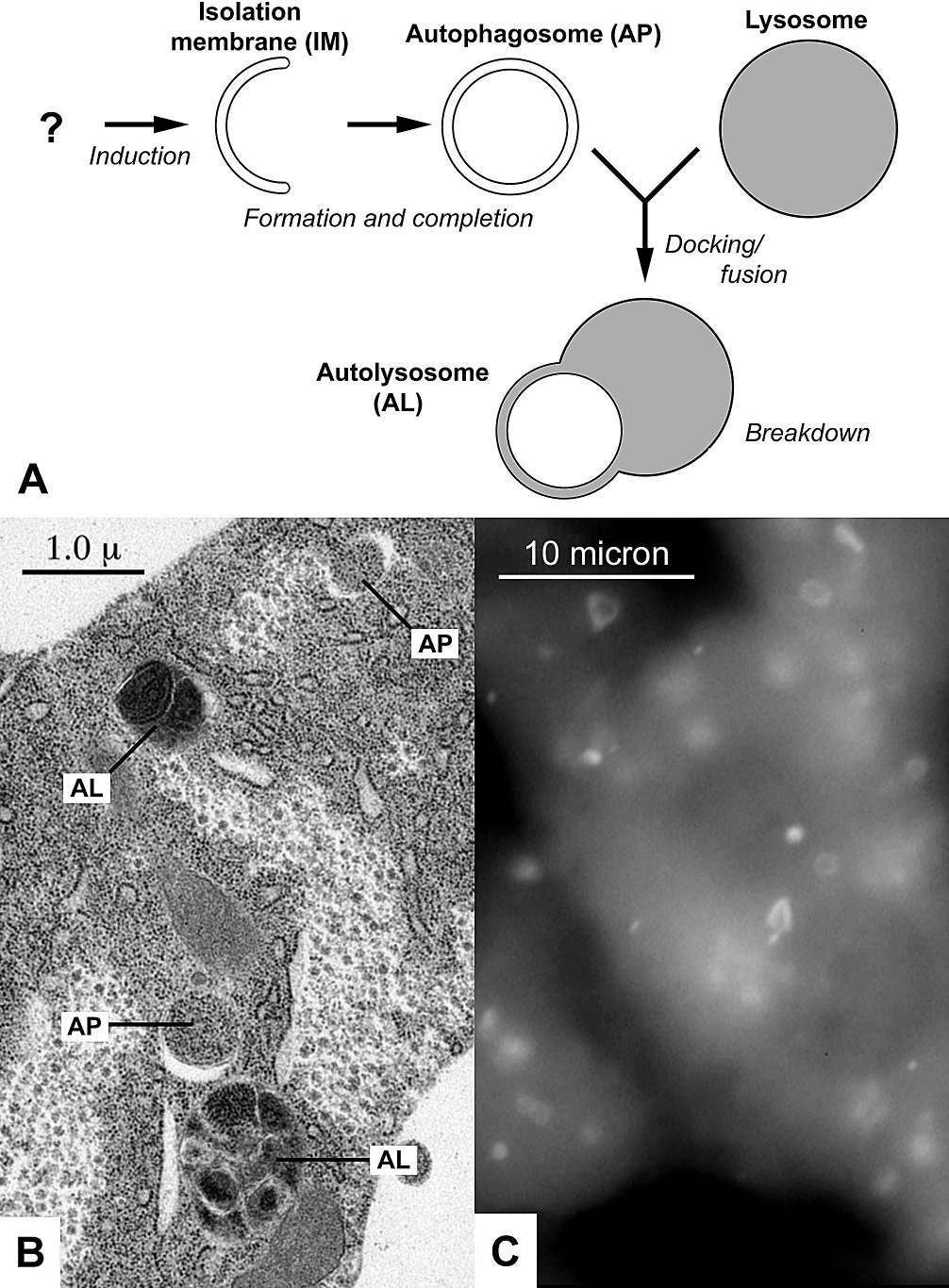 Diagram and images of autophagy from a 2006 PLoS Biology review. (A) Diagram of autophagy; (B) Electron micrograph of autophagic structures in the fatbody of a fruit fly larva; (C) Fluorescently labeled autophagosomes in liver cells of starved mice.